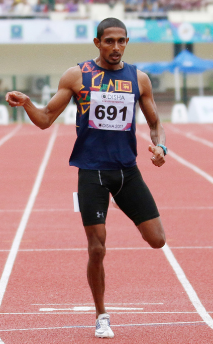 Athletes during 22nd Asian Athletics Championships in Bhubaneswar.